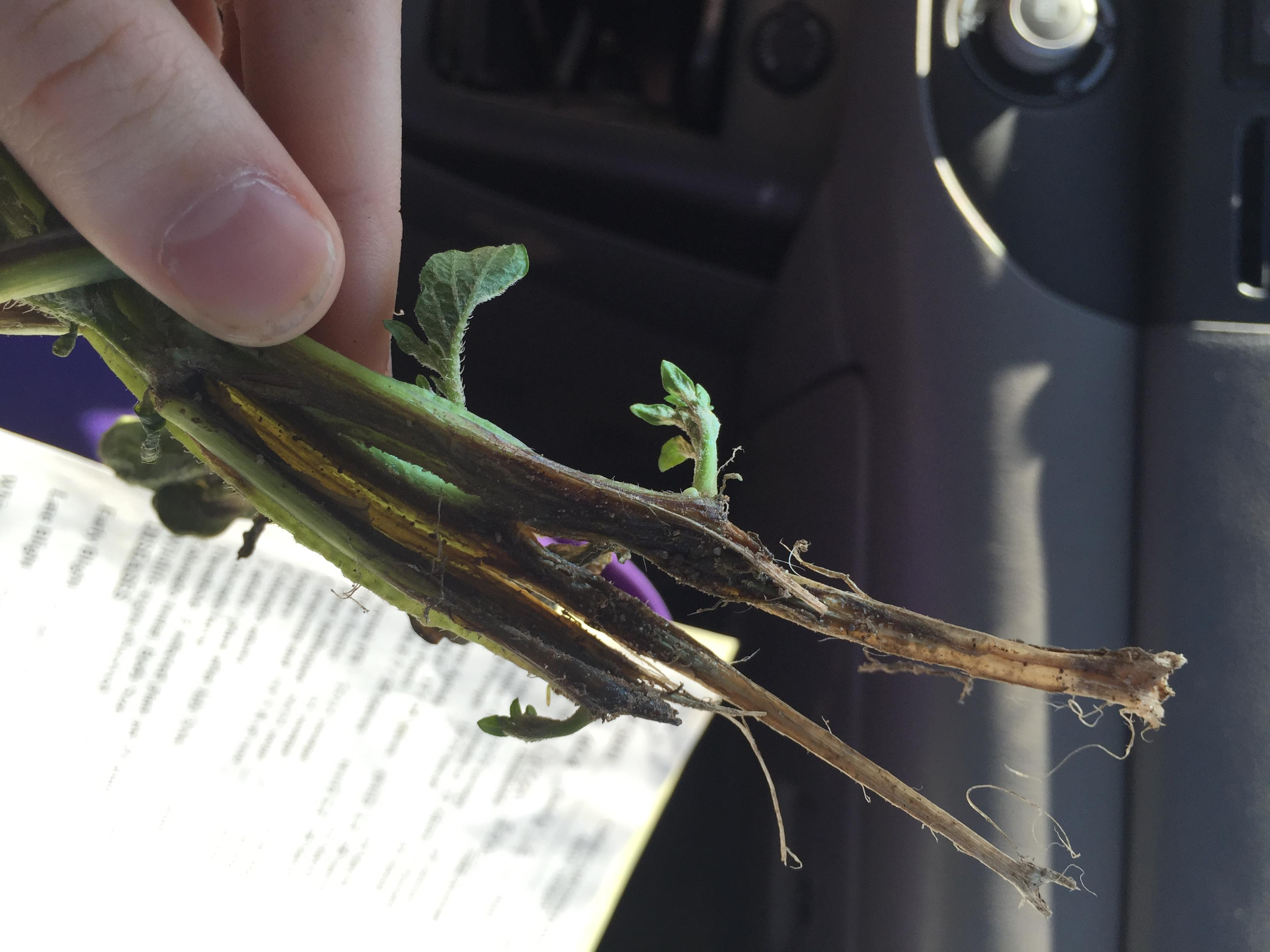 The symptoms of Dickeya solani on a potato stem in early summer.